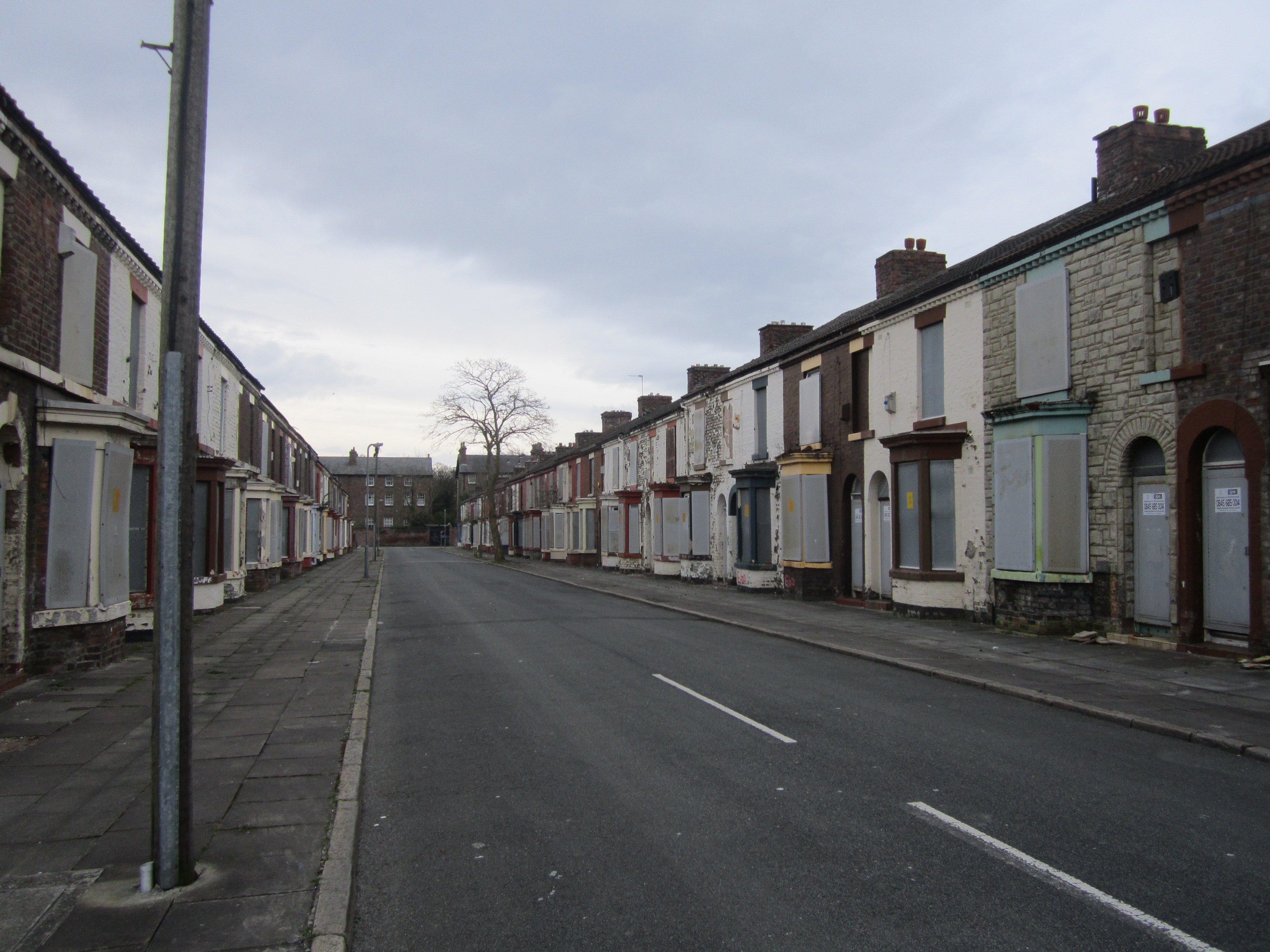 Photo taken at Toxteth, Liverpool, England.